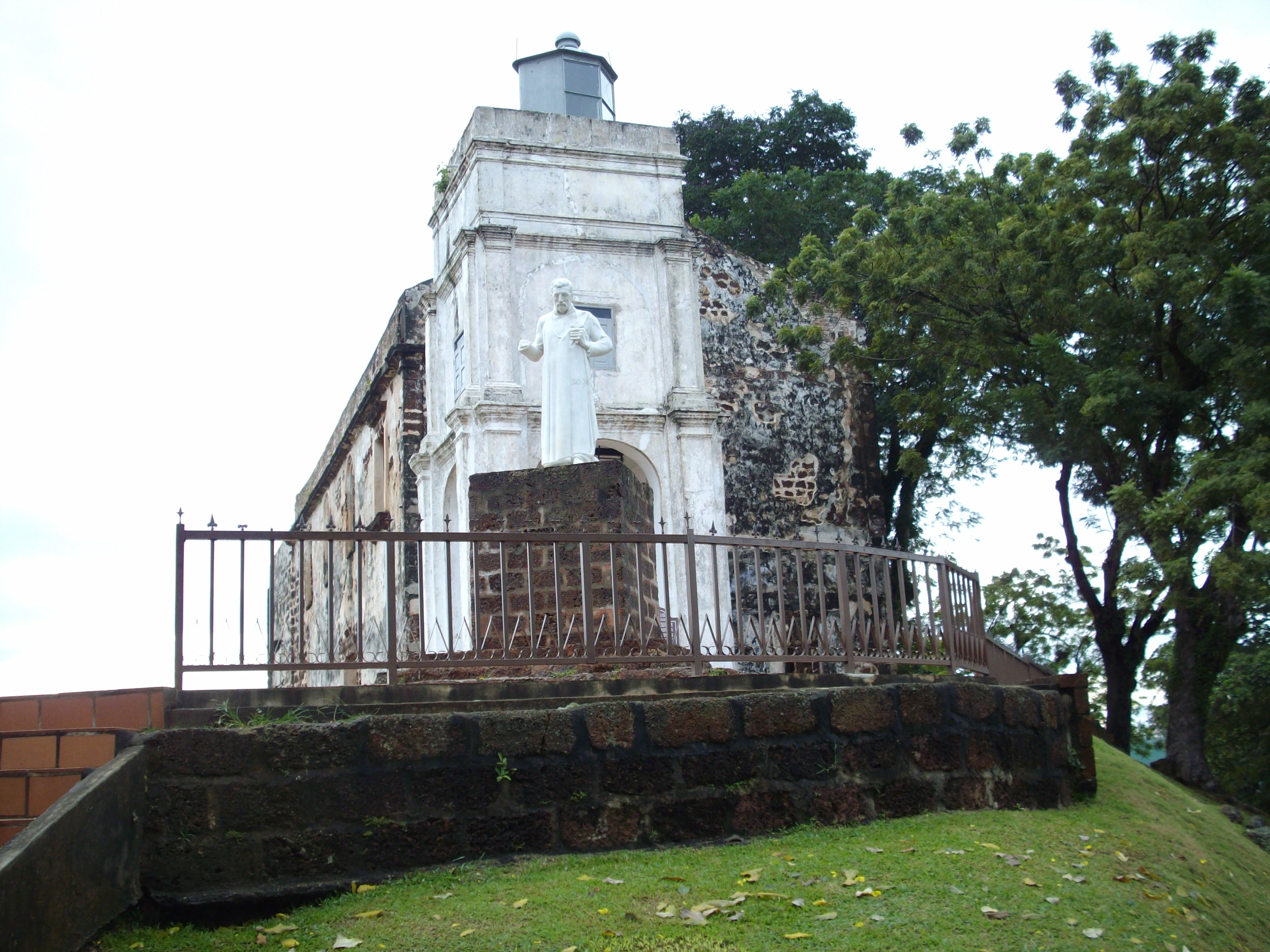 Ruins of "St Paul's Church" in Melaka with the statue of St Francis Xavier.